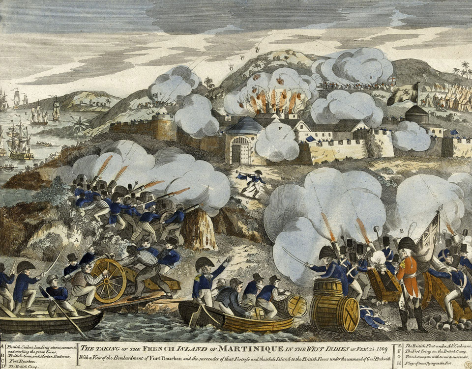 'The Taking of the French Island of Martinique in the French West Indies on Feby 24th 1809'.